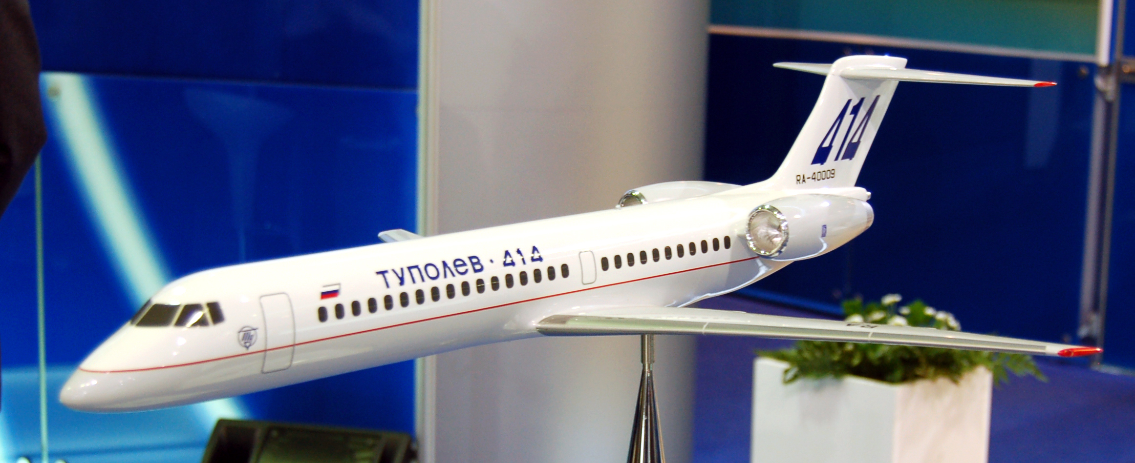 Maquette of Tupolev 414